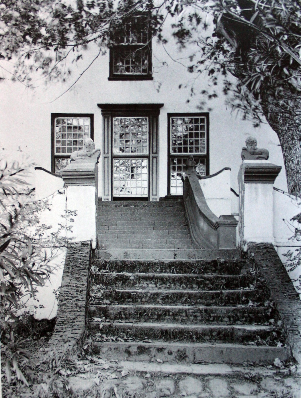 Alphen, 18th century farmhouse, declared a National Monument under old NMC legislation on 30 June 1973.[1]